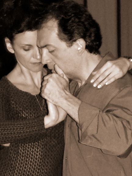 Gustavo Naveira and Giselle Anne workshop in Boulder, Colorado